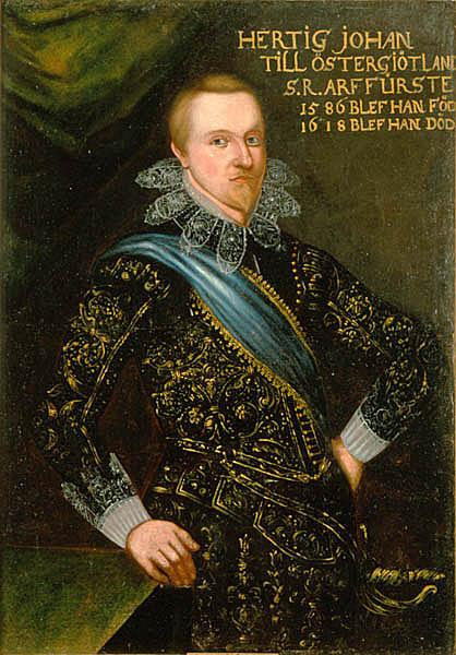 This painting is from the Swedish version of this article and the copyright status is listed there. See [1]